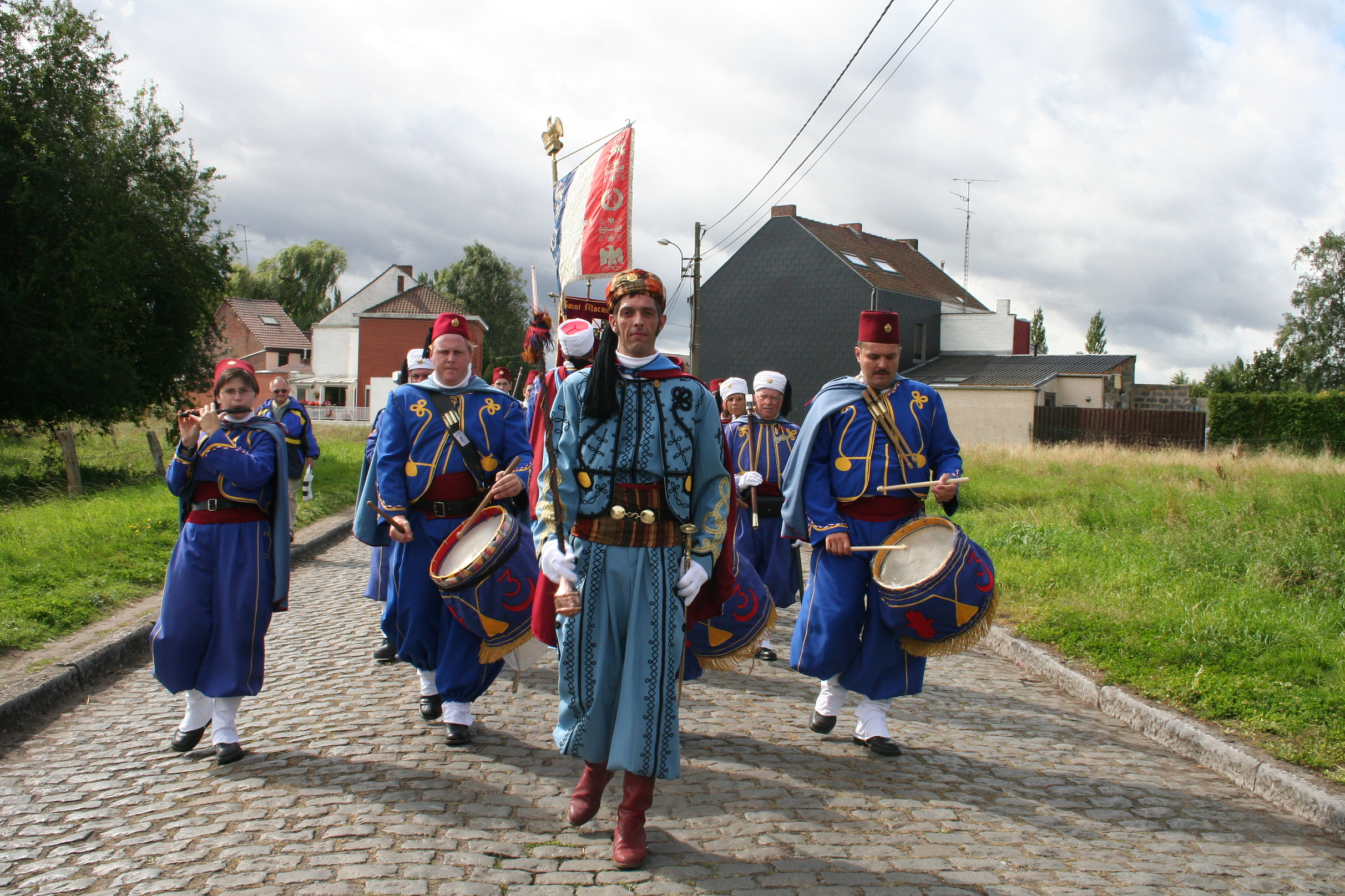 Havré (Belgium), of the 3rd Algerian Rifle Regiment folklore group of Fosses-la-Ville going to the chapel of Our Lady of goodwill during the procession of the Feast of the Assumption.